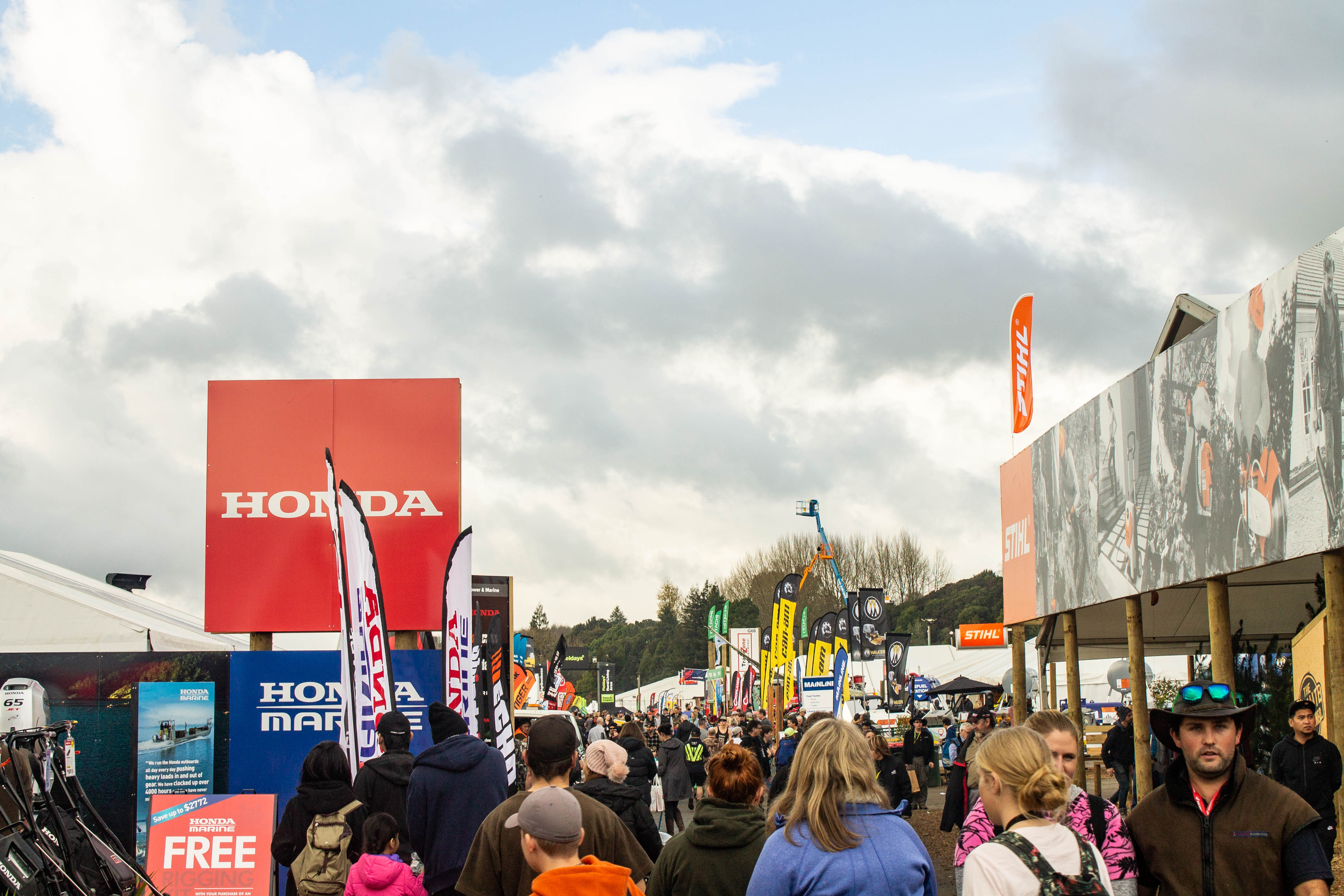 Crowds at Fieldays 2018